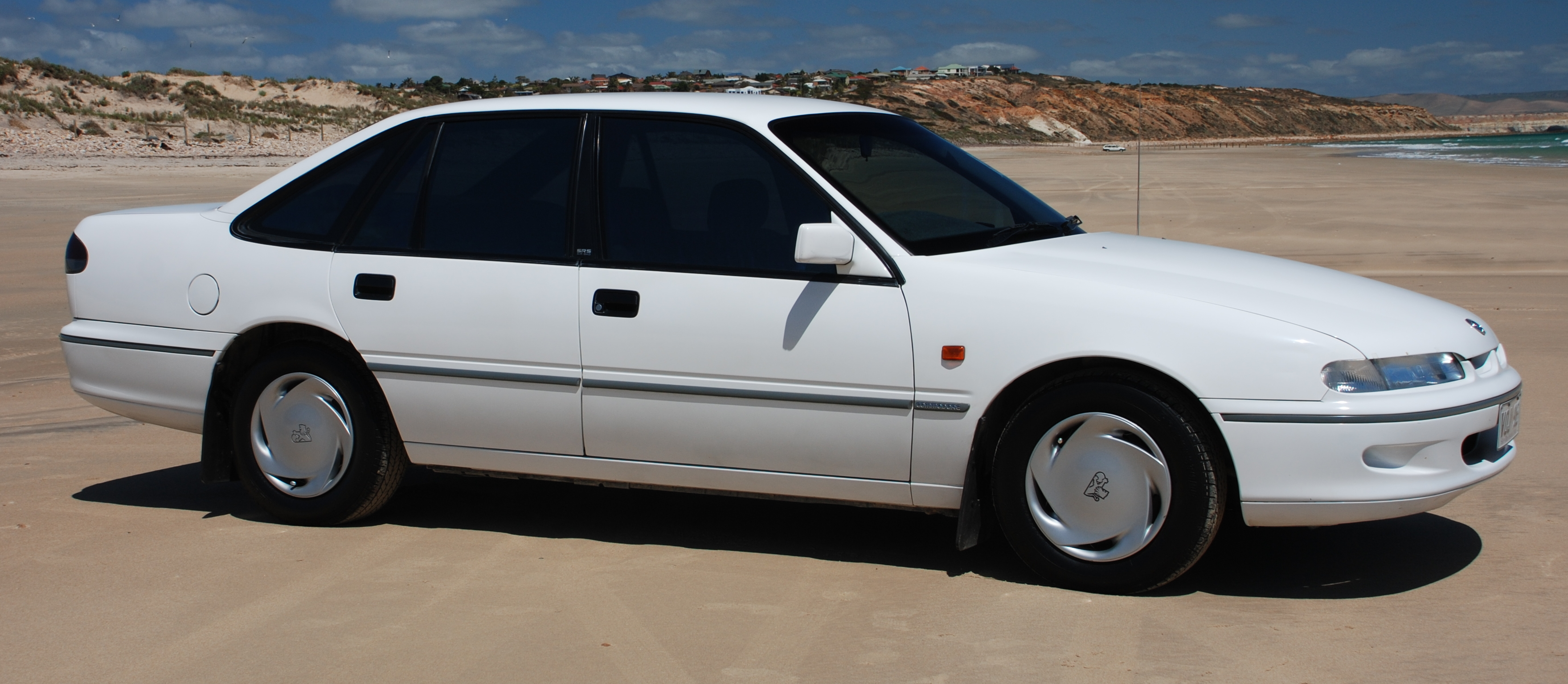 A 1994 Holden VR Commodore Acclaim at Moana Beach, South Australia.